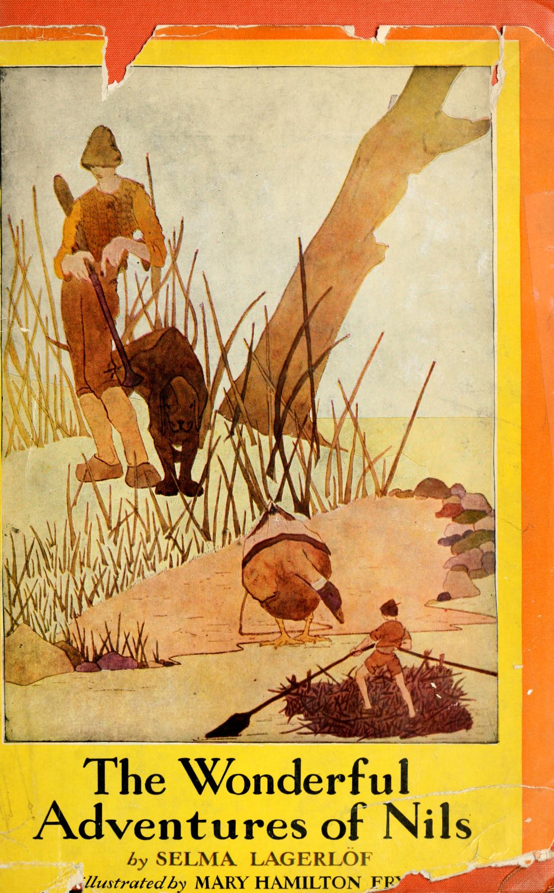 Cover of The Wonderful Adventures of Nils published 1906/07 and English 1913.